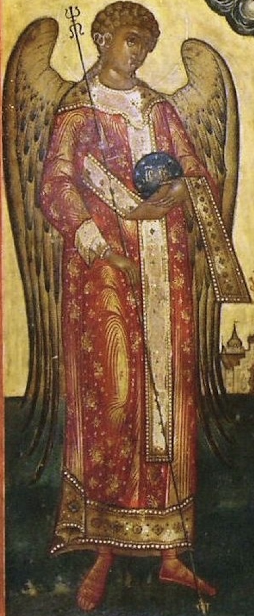 Archangel Selaphiel, detail of the Icon of Archangel Selaphiel and the Apostle Herodion, Russia, 1840. Private collection in Germany.